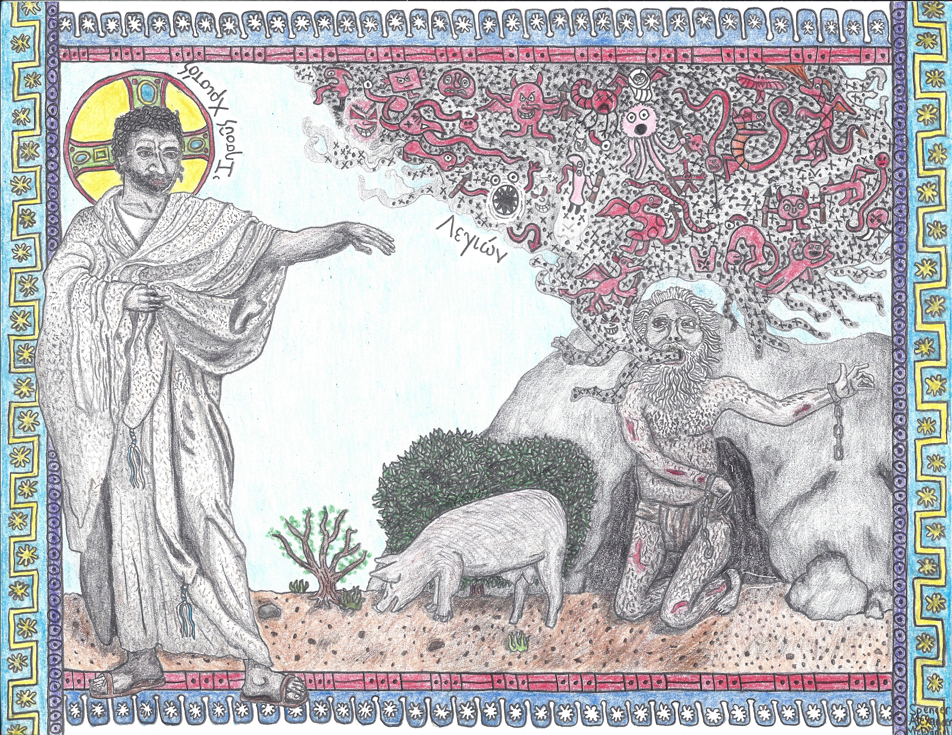 This is a pencil illustration by Spencer Alexander McDaniel that was started on 26 April 2020 and completed on 7 May 2020. It depicts the scene from the Gospel of Mark 5:1-20 in which Jesus exorcizes many demons from a man at a location described as "the country of the Gerasenes." In making this illustration, the artist drew some very loose inspiration from an early sixth-century AD mosaic in the Basilica of Sant'Apollinare Nuovo in Ravenna, Italy. The artist based his portrayal of Jesus's appearance on his own analysis of the historical sources, which is presented in this article he published in March 2020. The appearance of the demon-possessed man in this illustration is based on how he is described in the Gospel of Mark. The patterns around the borders of the illustration are based on patterns from Byzantine art. The demons in this illustration are meant to be symbolic rather than realistic and are meant to appear bizarre and otherworldly.